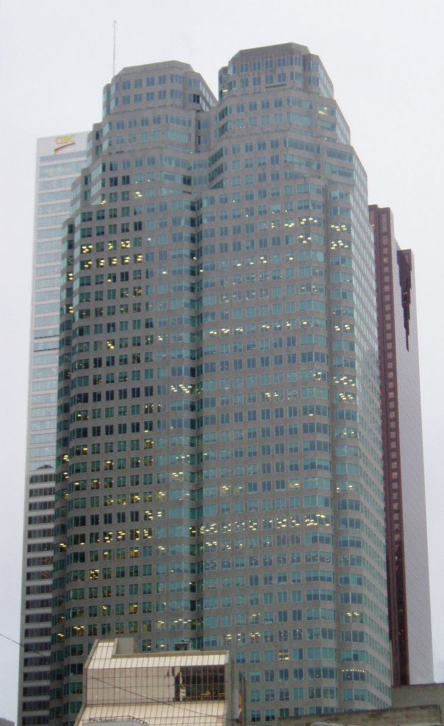 Bay Wellington Tower in Toronto, taken by SimonP